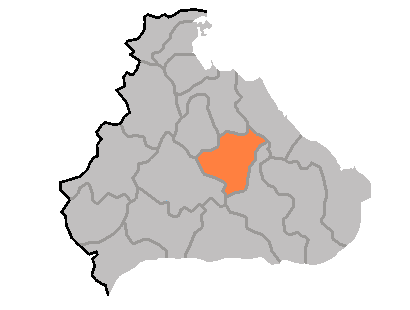 Hoeyang county map